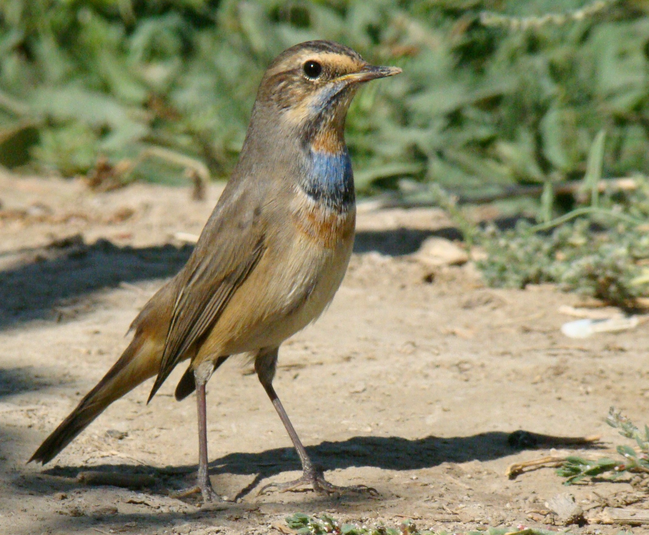 Bluethroat (Luscinia svecica) male. Baikonur, Kazakhstan.